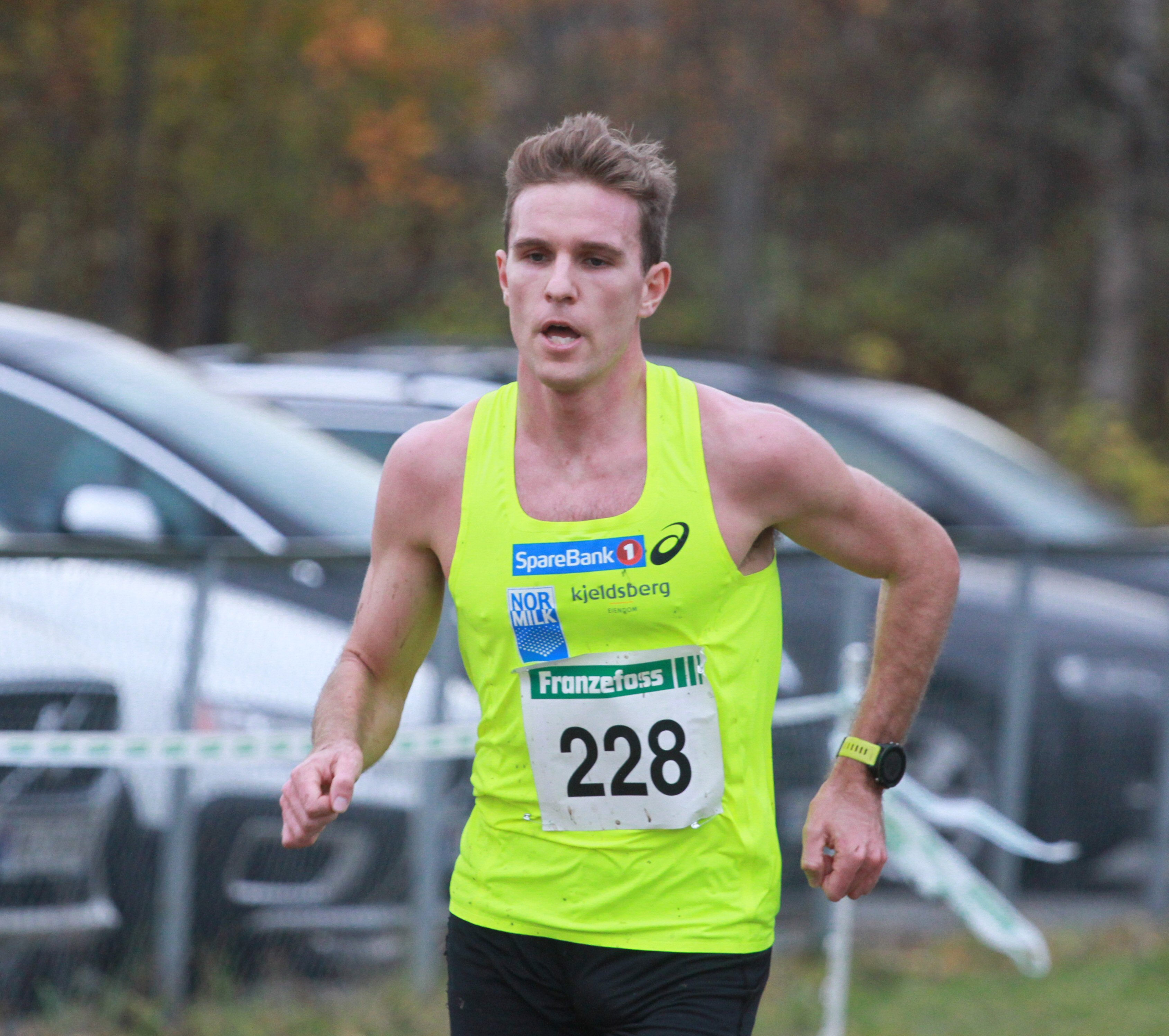 Cross country skier Didrik Tønseth during Norwegian cross country running championship in 2018.